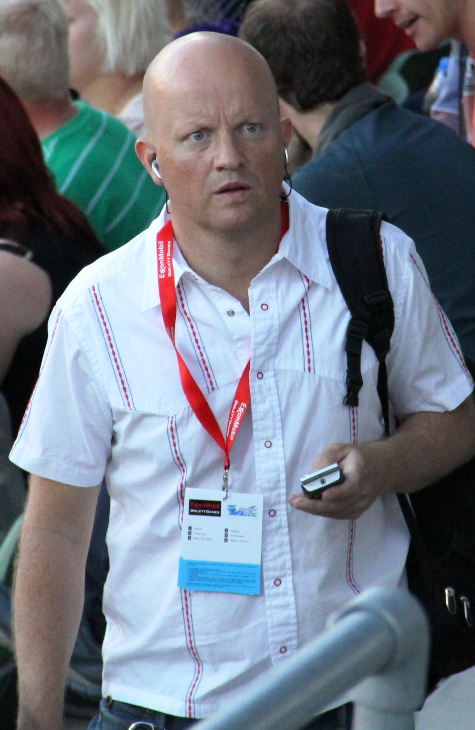 Harald Thingnes, norwegian TV-host, journalist and photographer